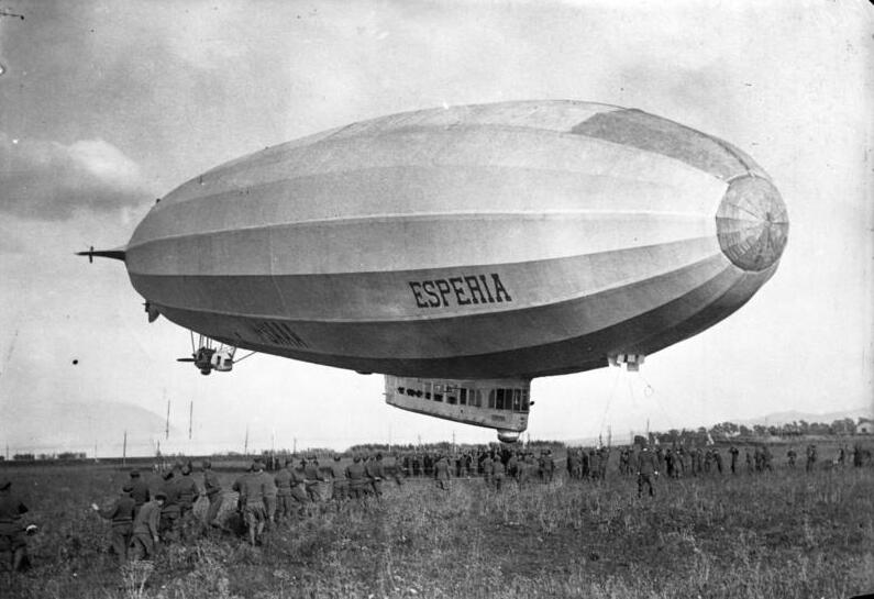 the former Zeppelin LZ 120 Bodensee, given to Italy as reparation and renamed Esperia